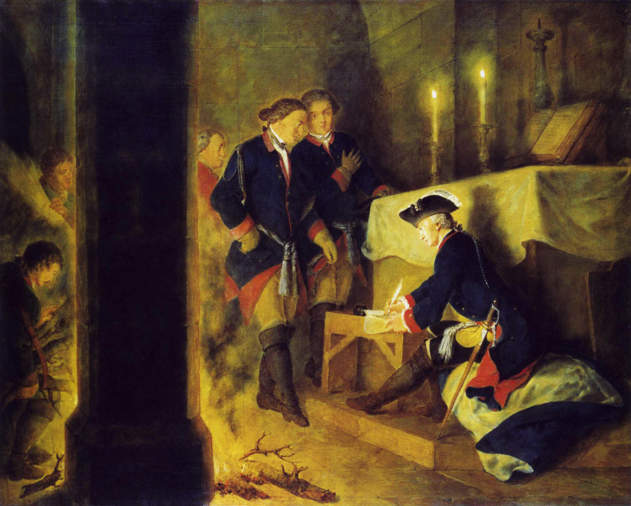 Bernhard Rode: Frederick the Great after the Battle at Torgau (probably 1793), oil on canvas